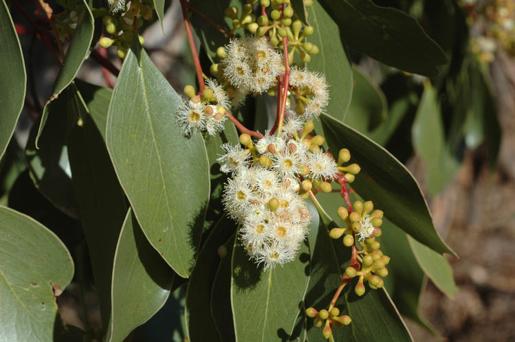 Flower buds and flowers of Eucalyptus populnea at Pine Creek, near the Paroo-Darling National Park, New South Wales